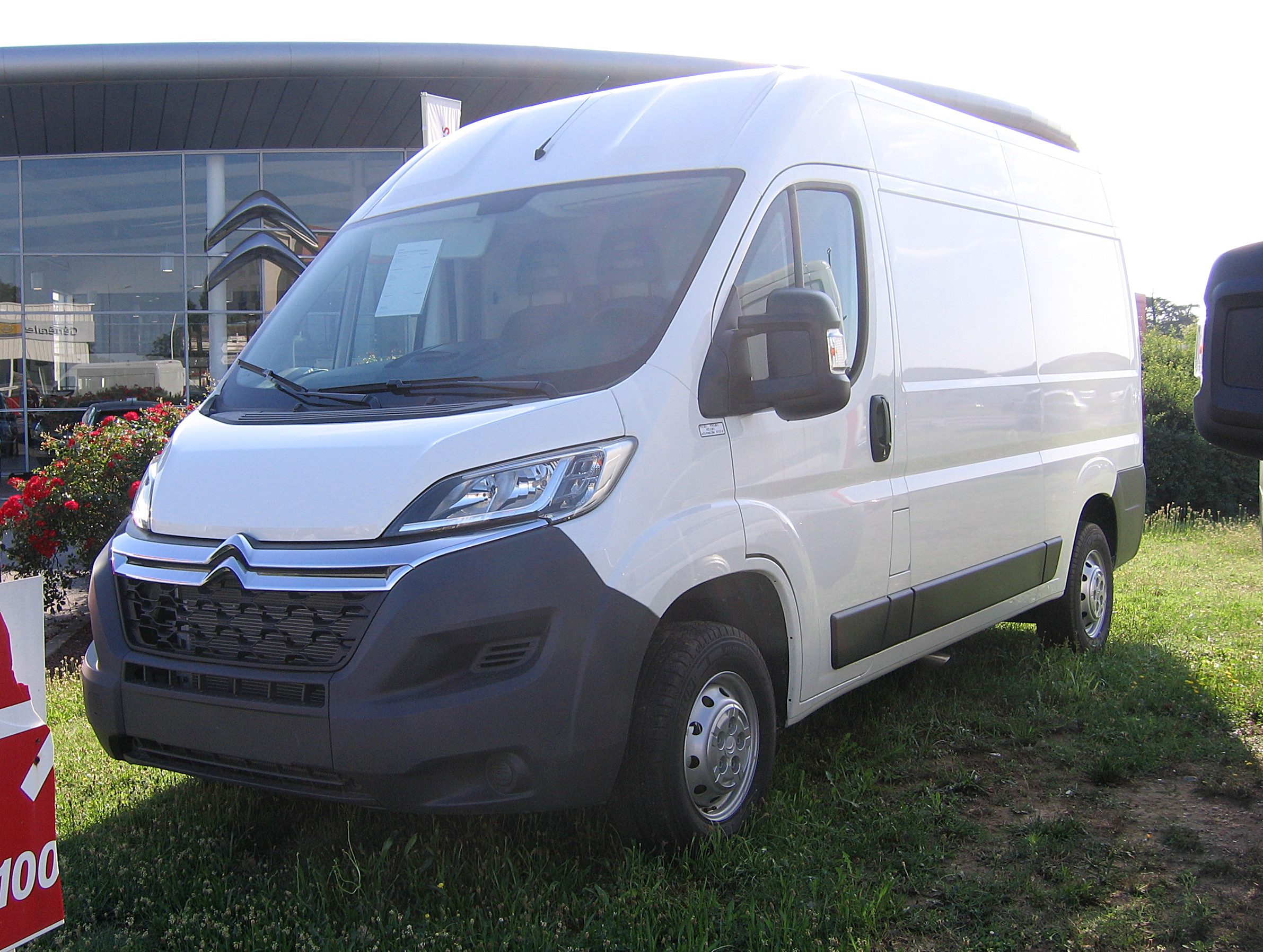 A 2014 Citroën Jumper.